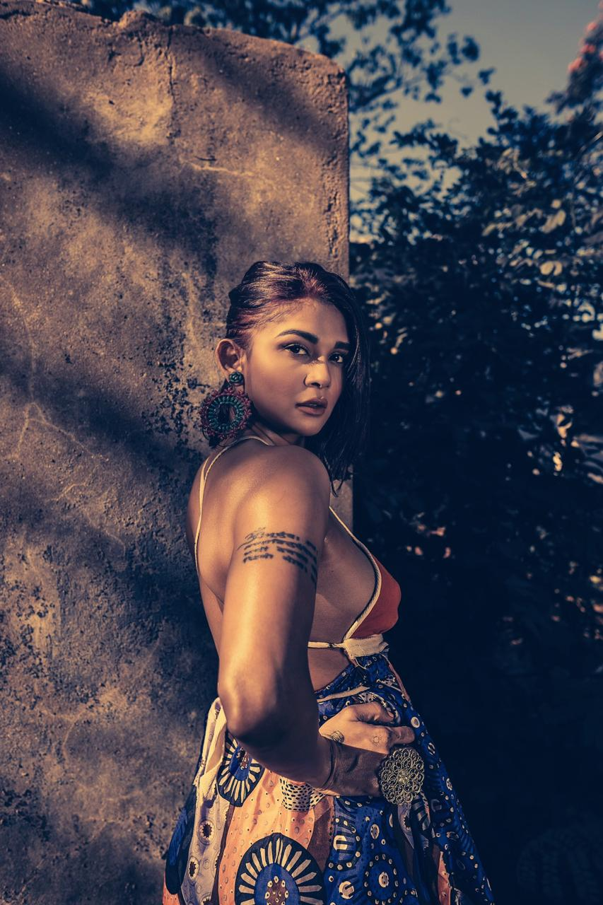 Portrait image of sakshi pradhan